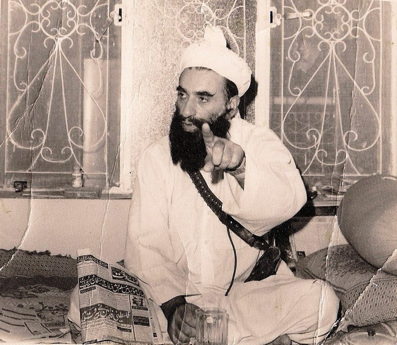 Molvi Mohammad Nabi Mohammadi, one of the seven powerful Afghan Mujahideen commanders who fought against the Russian-backed Afghan government during the 1980s and 90s. The background in the photo appears that he's sitting inside a house somewhere in Pakistan.